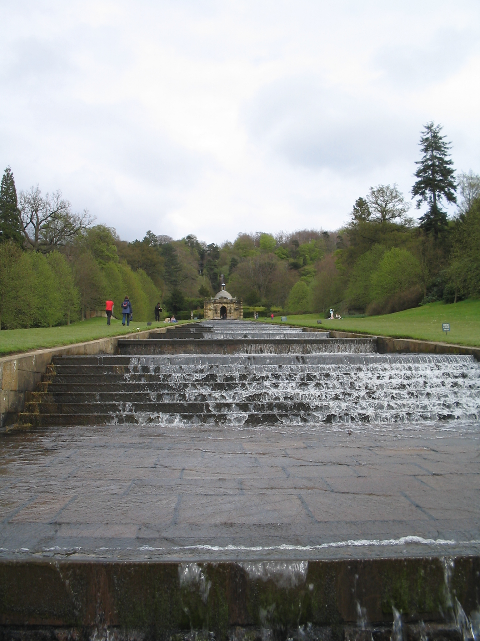 The Cascade and Cascade House at Chatsworth House.